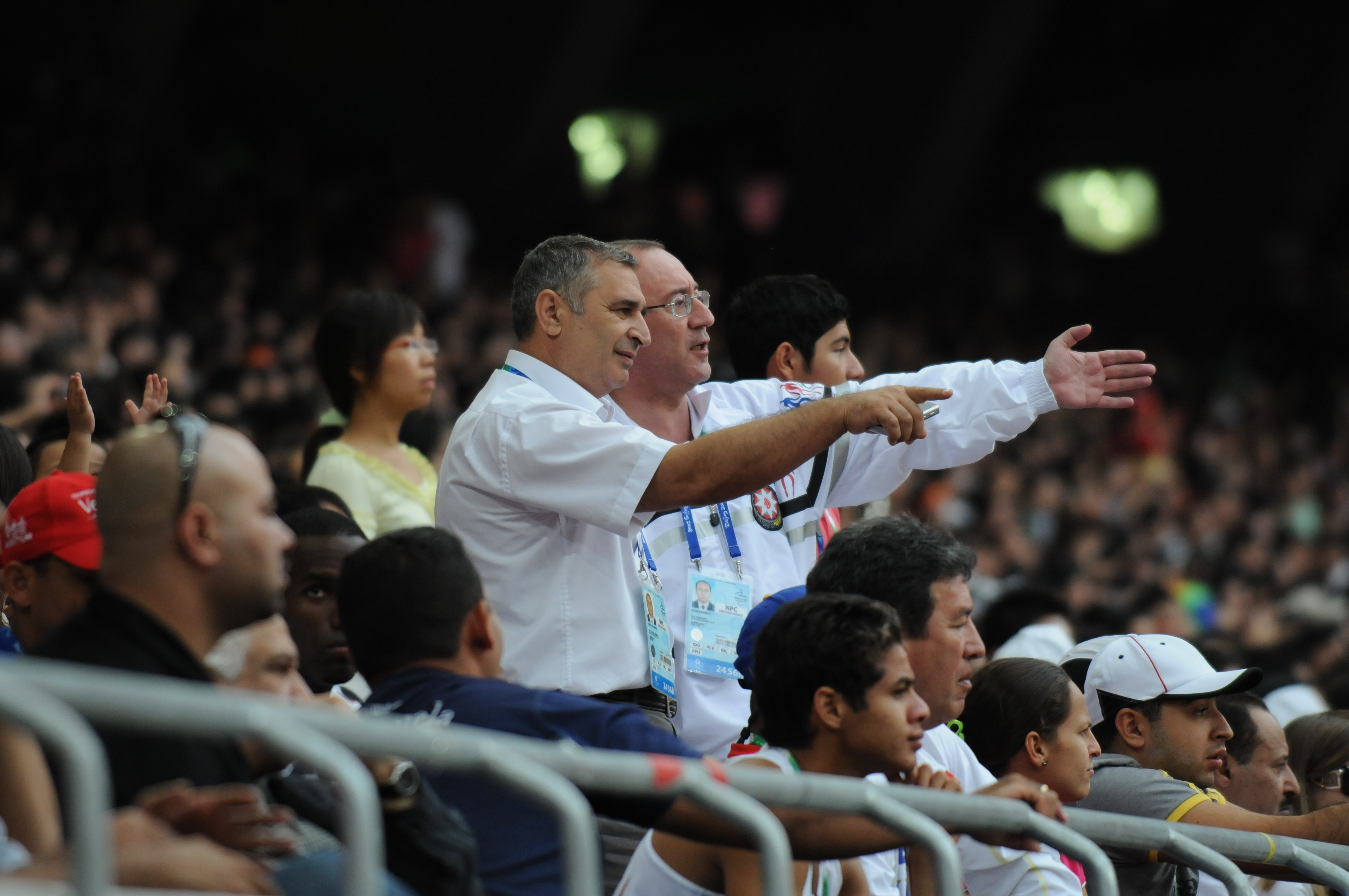 Azerbaijan Paralympics Federation leaders at the 2008 Summer Paralympics